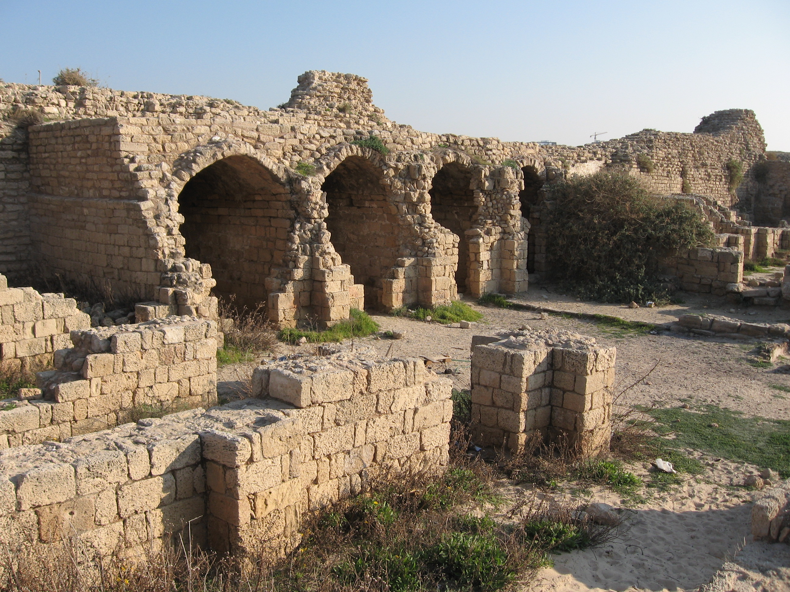 Citadel of Ashdod-Sea